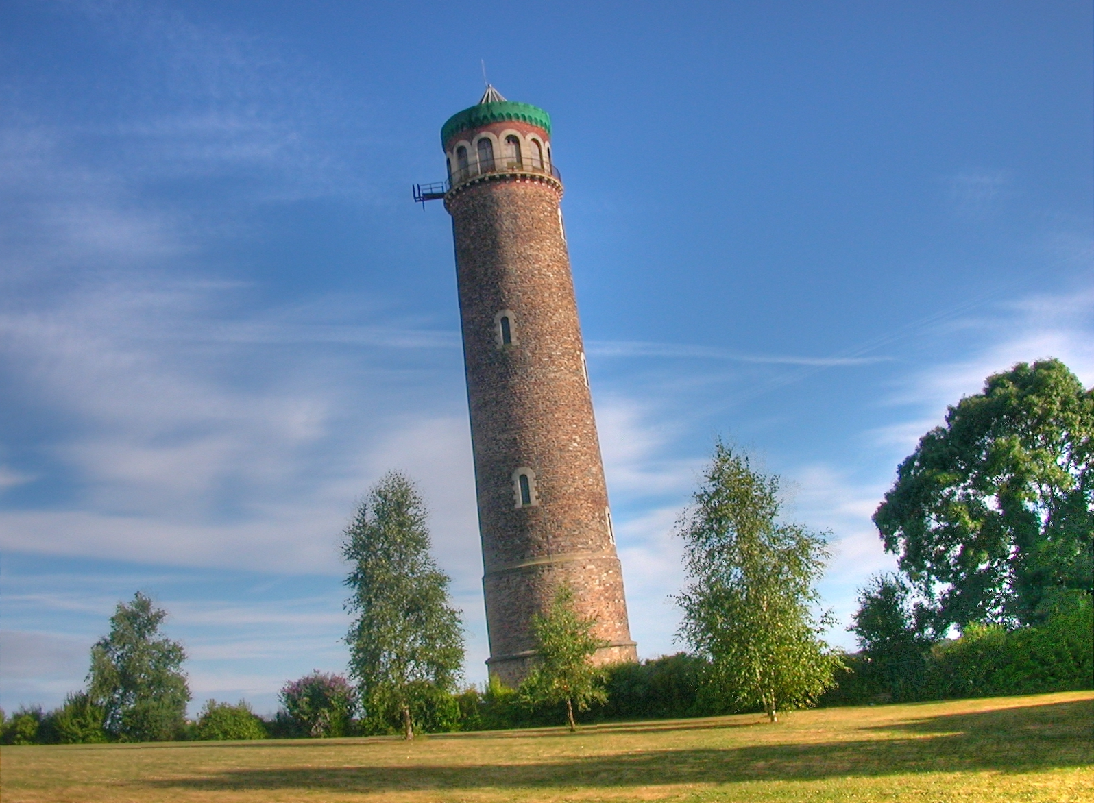 The lead tower of Couëron